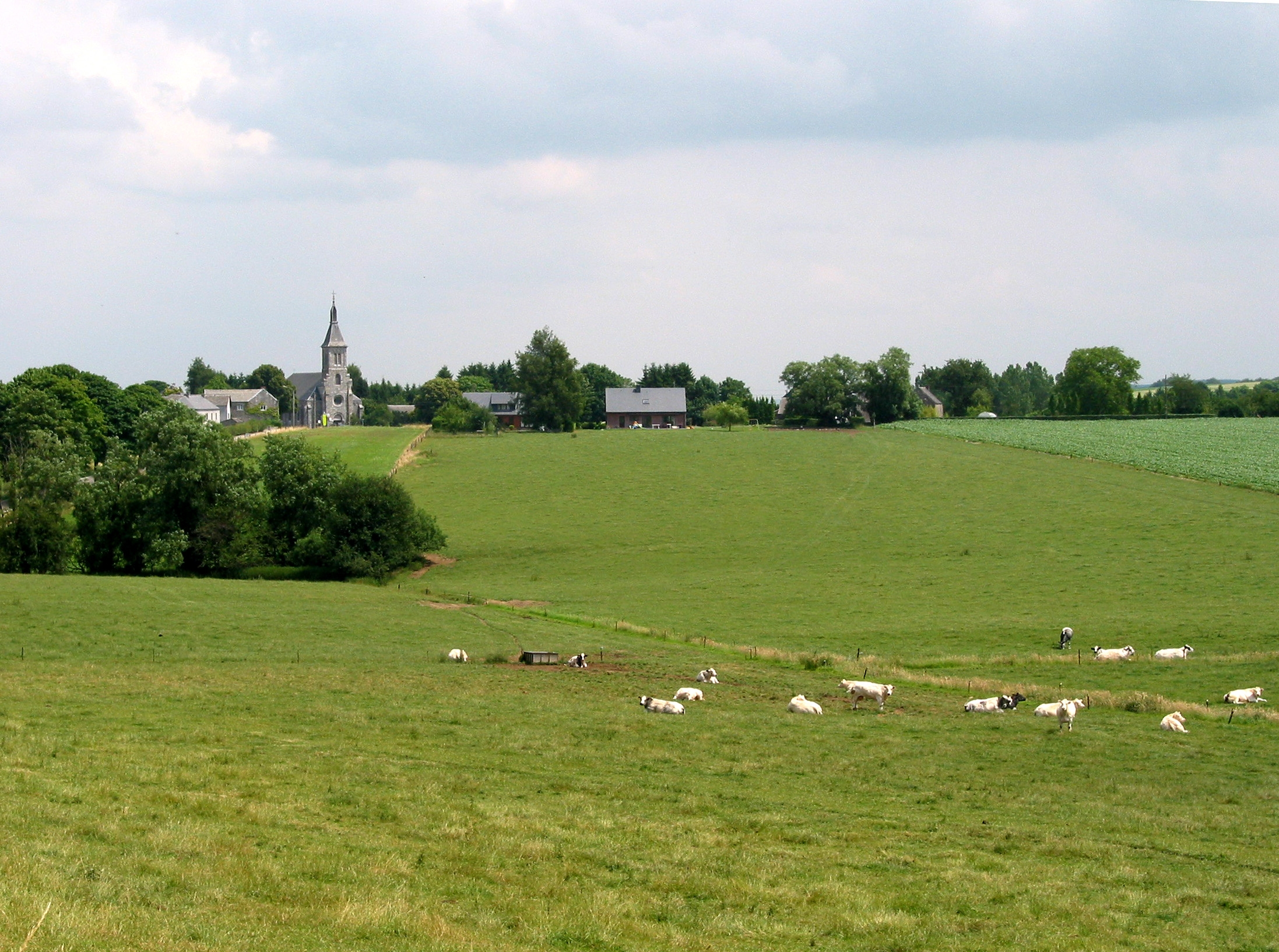 Méan (Havelange) (Belgium), view on the village.